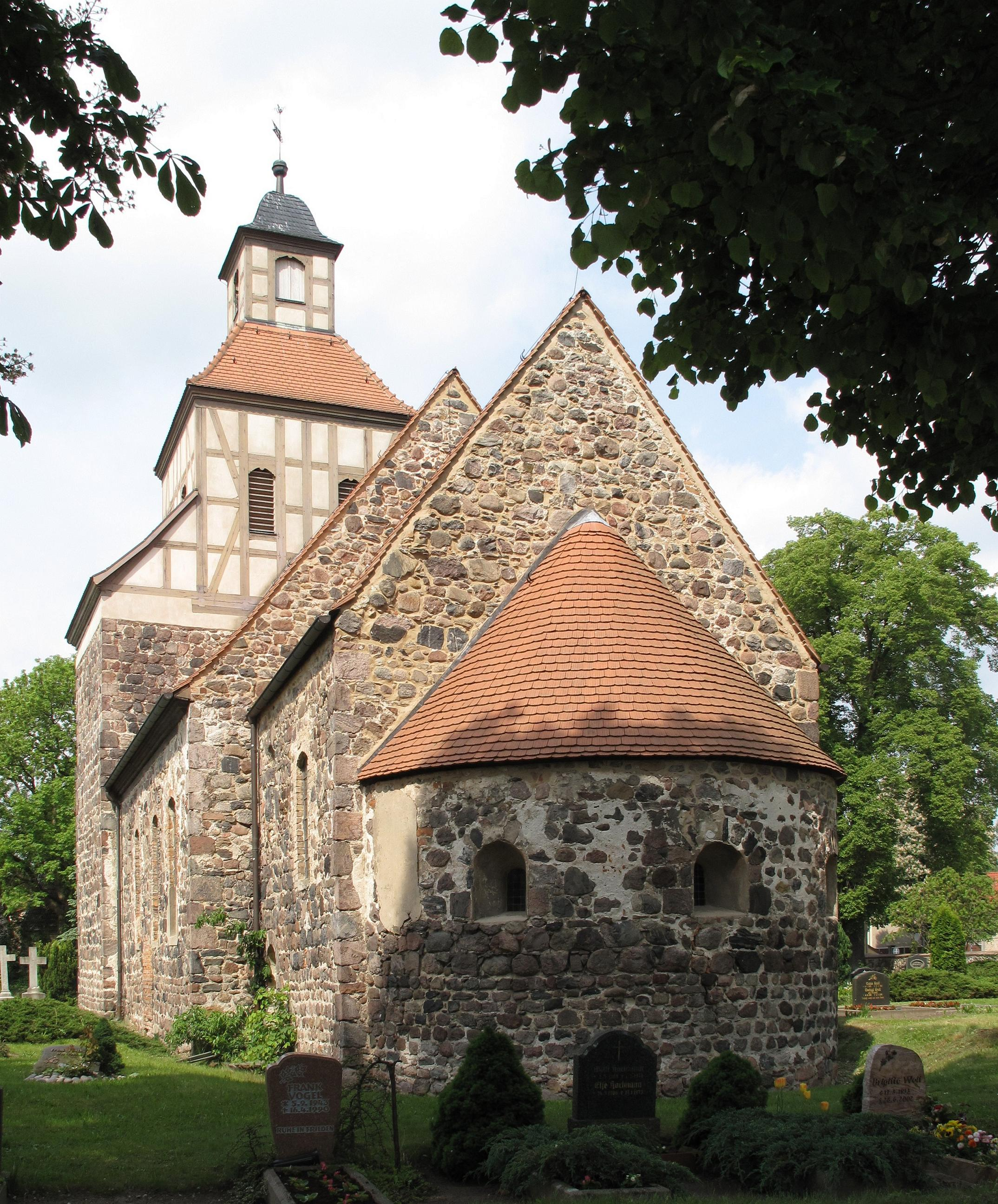 Village church Wildenbruch. Listed Fieldstone church, built in the 13th century. The timber framed addition on the center of the west tower was built in 1737 and after modifications in the meantime1992 reconstructed according to the plans from 1737. Contrary to many different depictions it is no Fortified church (german: Wehrkirche). Wildenbruch is a part of Michendorf in the district Potsdam-Mittelmark, state Brandenburg, Germany.